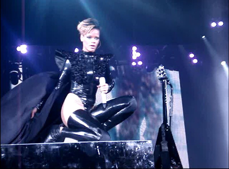 Rihanna, Lyon, April 2010. Last Girl on Earth Tour